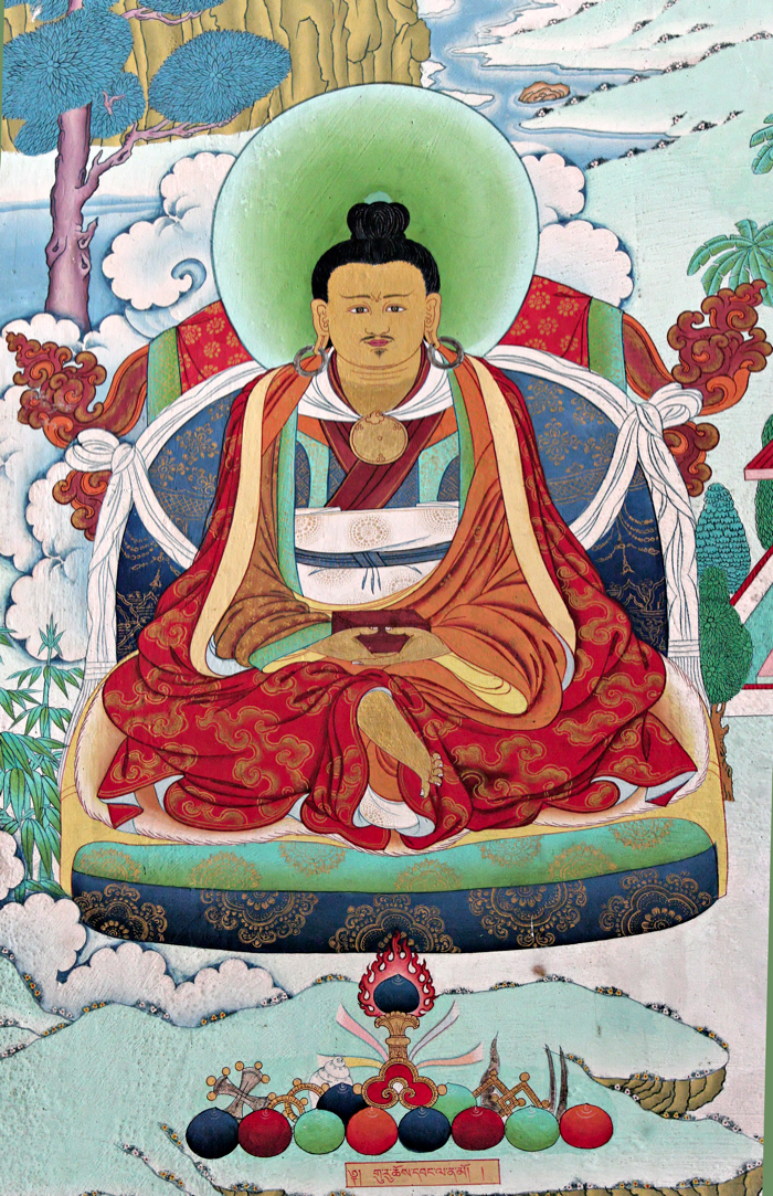 Guru Chowang (b.1212 - d.1270), Tibetan Terton